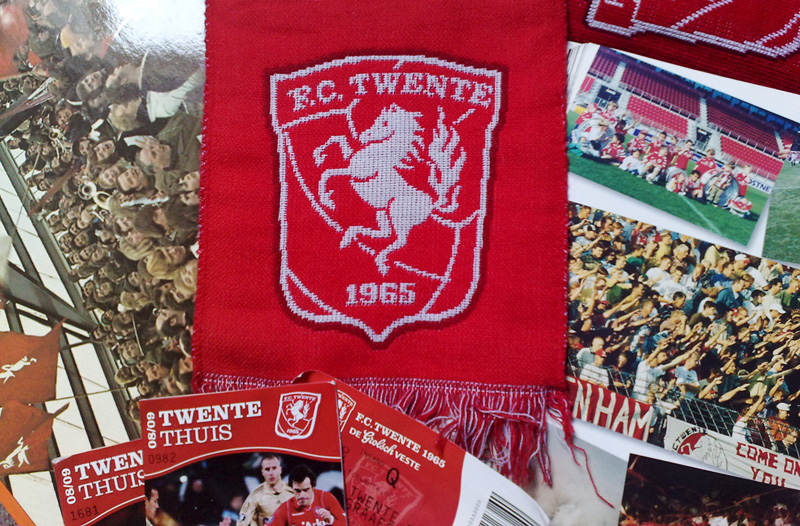 Composition made by putting together objects with the subject FC Twente